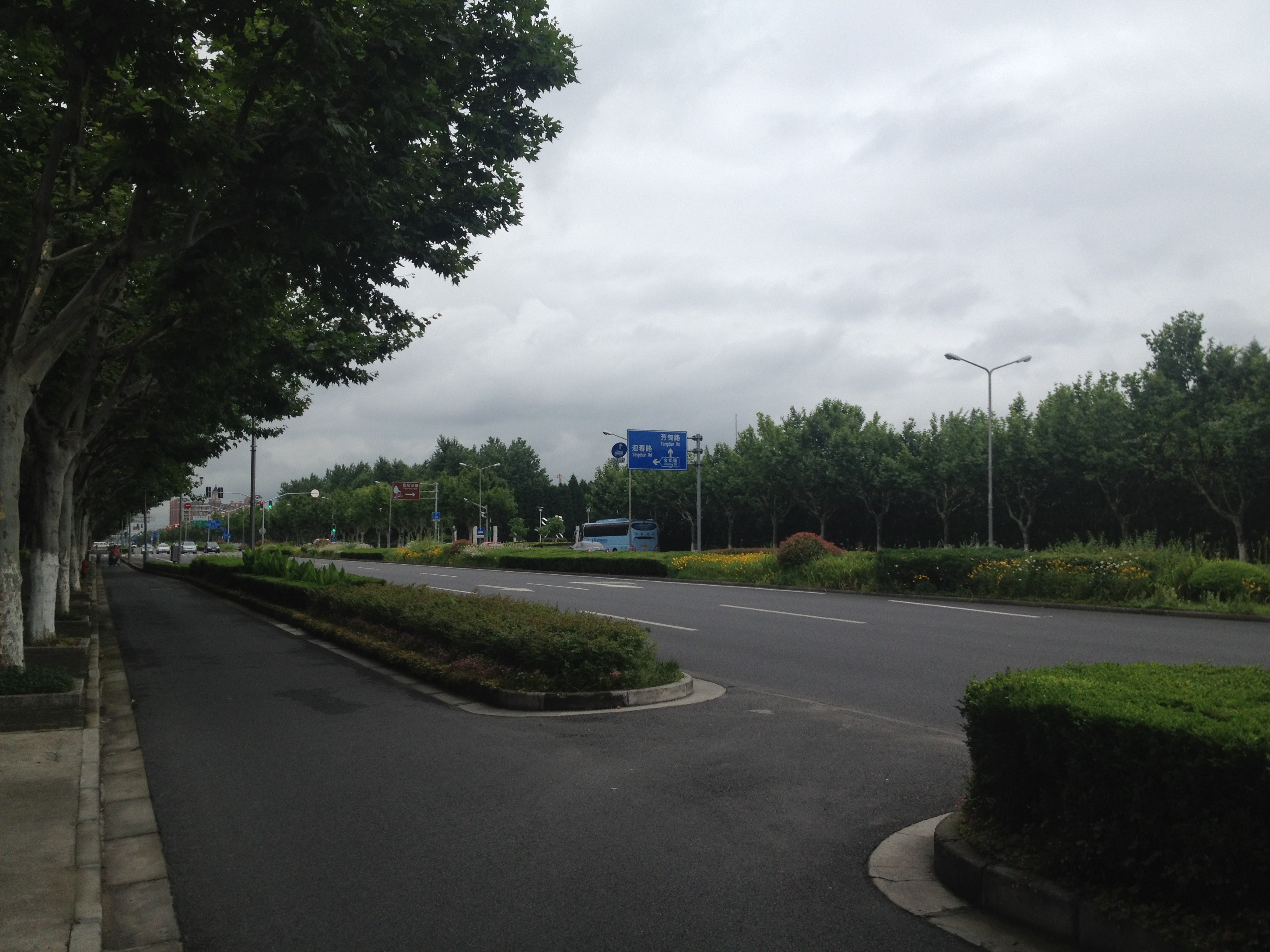 Jinxiu Road Shanghai